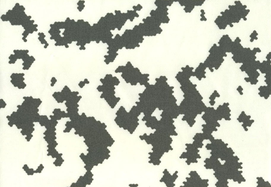 Finnish m/05 snow camouflage pattern